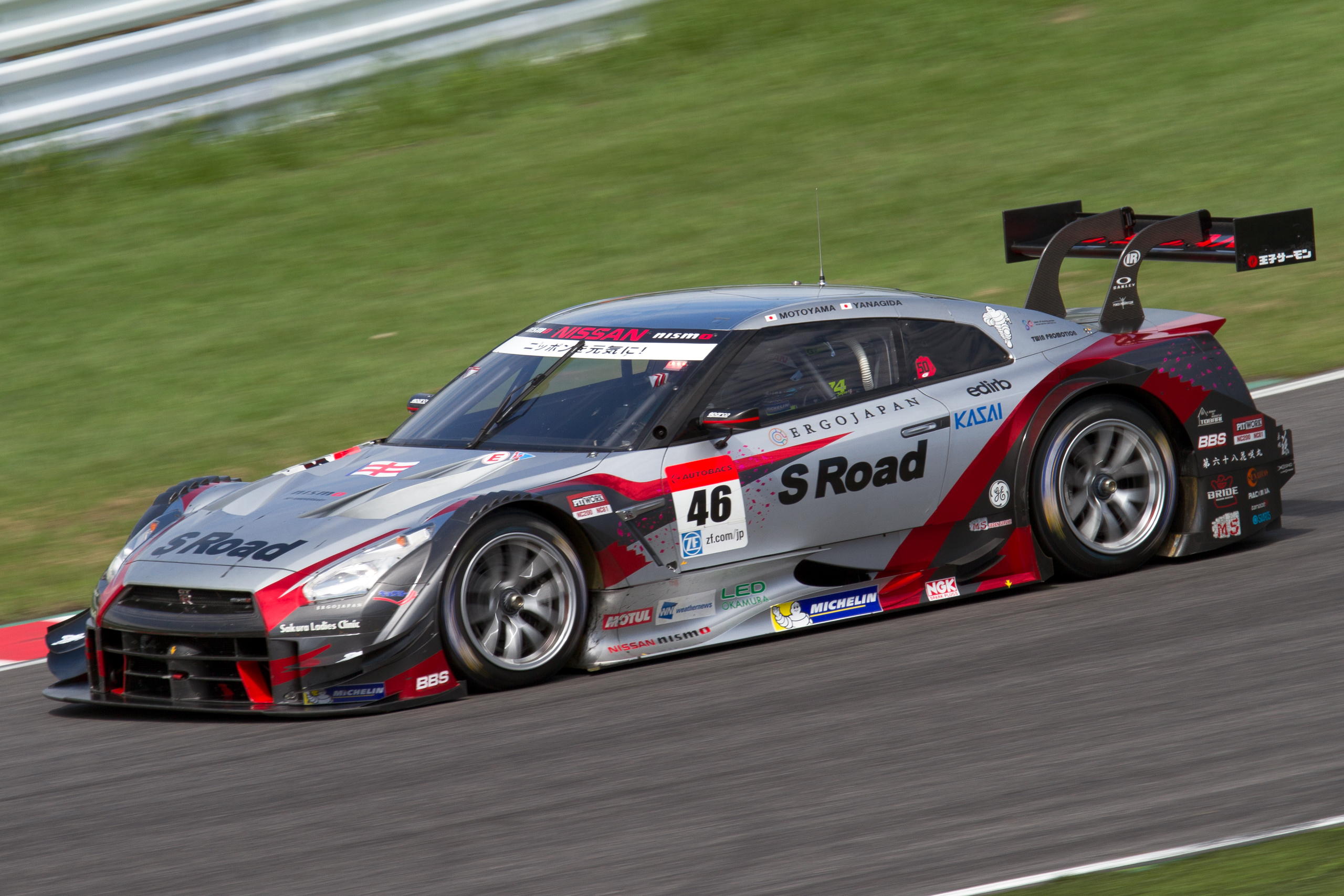 Super GT 2014 Rd.6 Suzuka 1000km: Satoshi Motoyama (Mola)